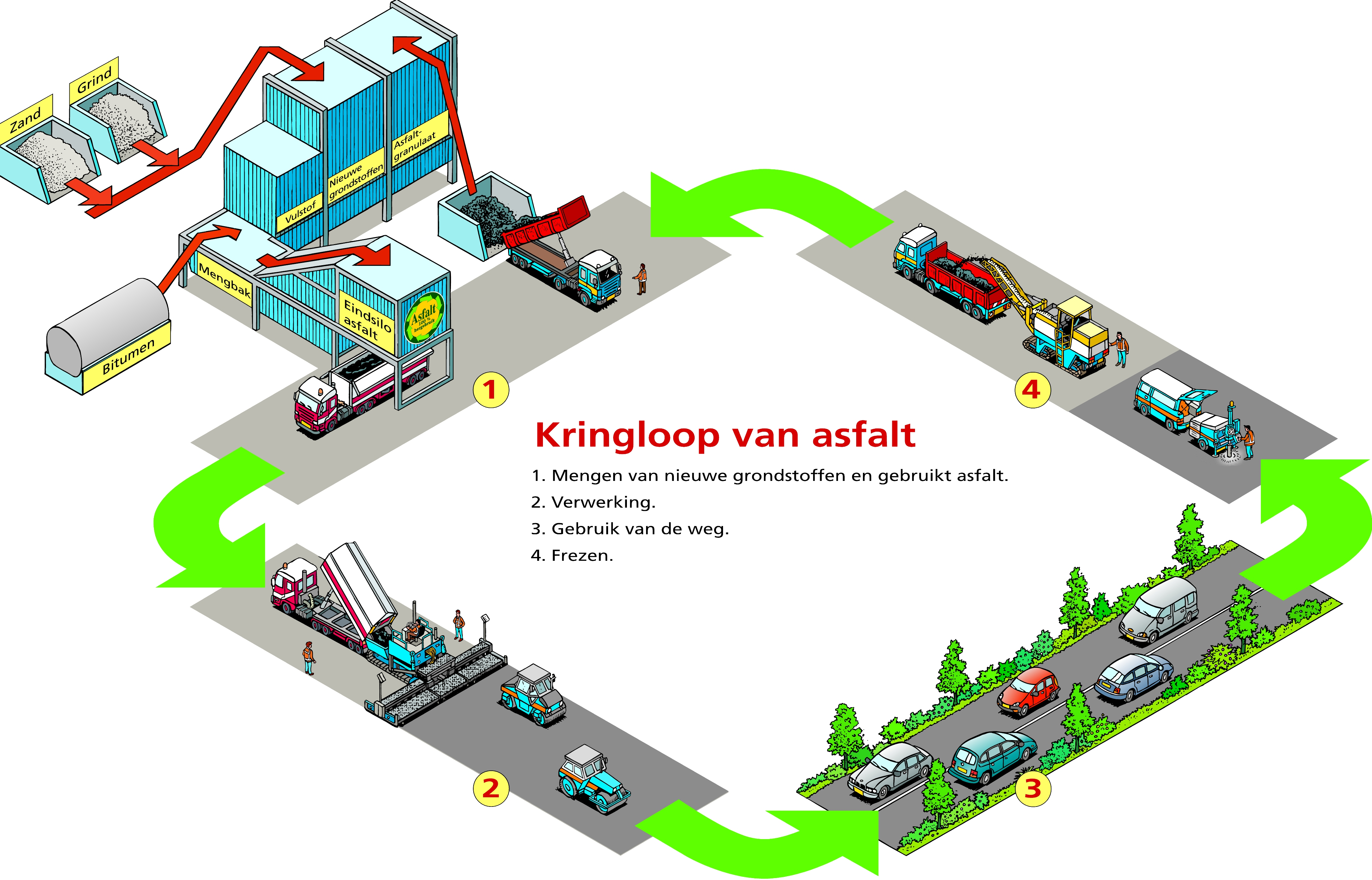 Cycle of asphalt concrete